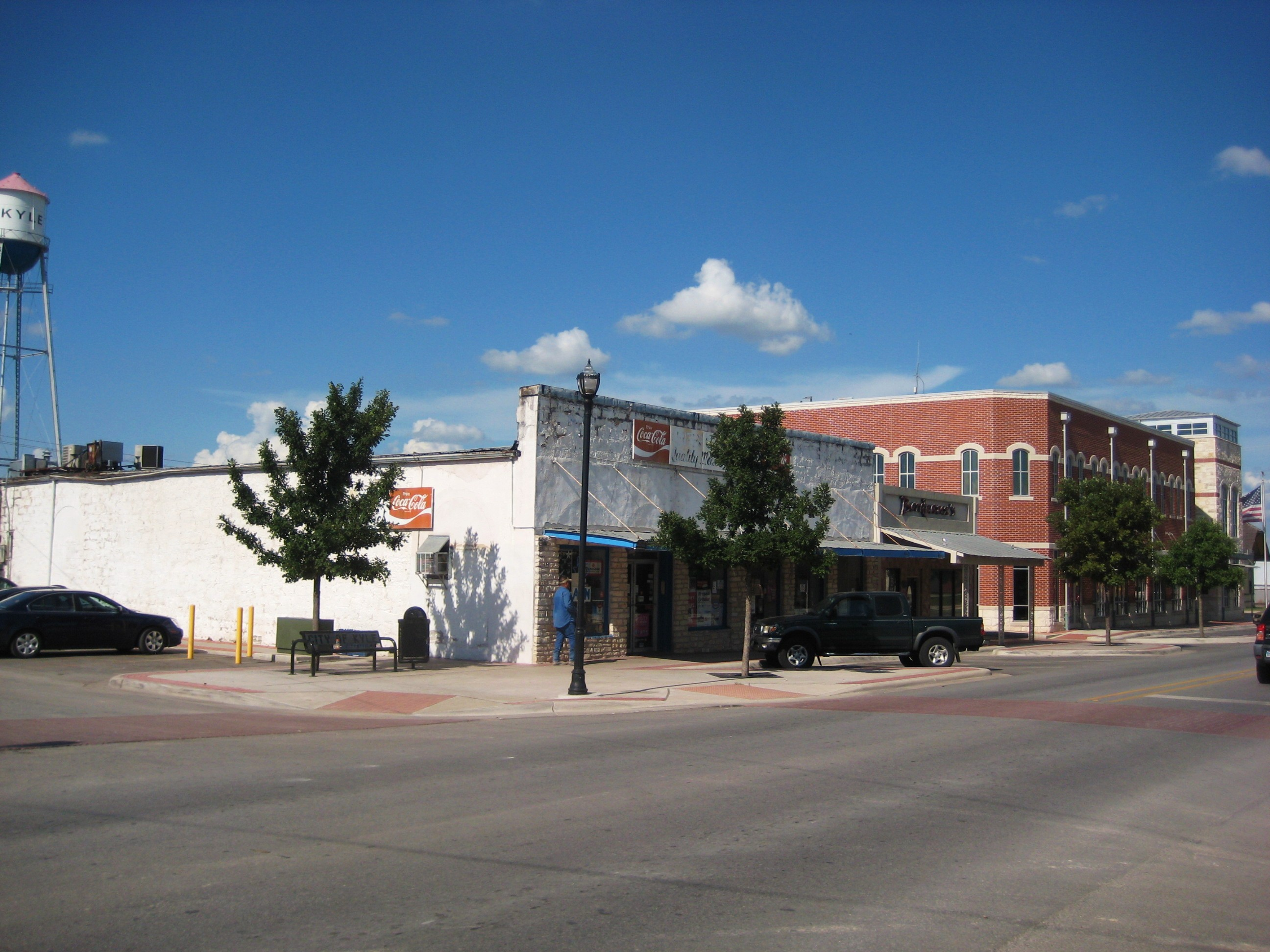 Kyle, Texas